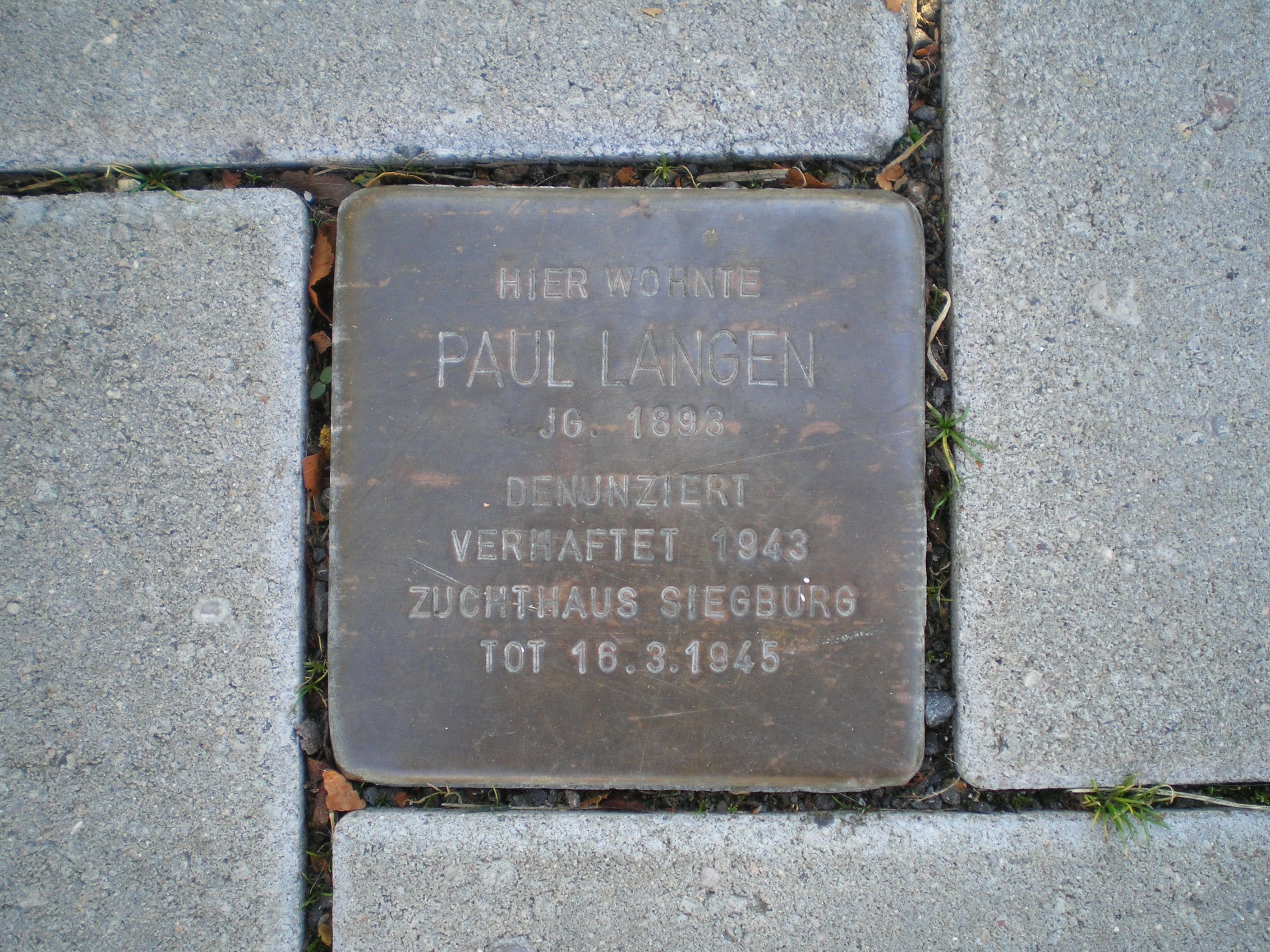 Stolperstein for Paul Langen, an opponent and victim of National Socialism. It was placed in front of the Catholic primary school in Holzlar, Germany, on 22 June 2010. Langen was the headmaster of that school and lived in a flat nearby from 1931 until his arrest by the Gestapo in 1943. The inscription reads: Here lived / PAUL LANGEN / Born 1893 / Denounced / Arrested in 1943 / Siegburg Penitentiary / Dead on 16 March 1945